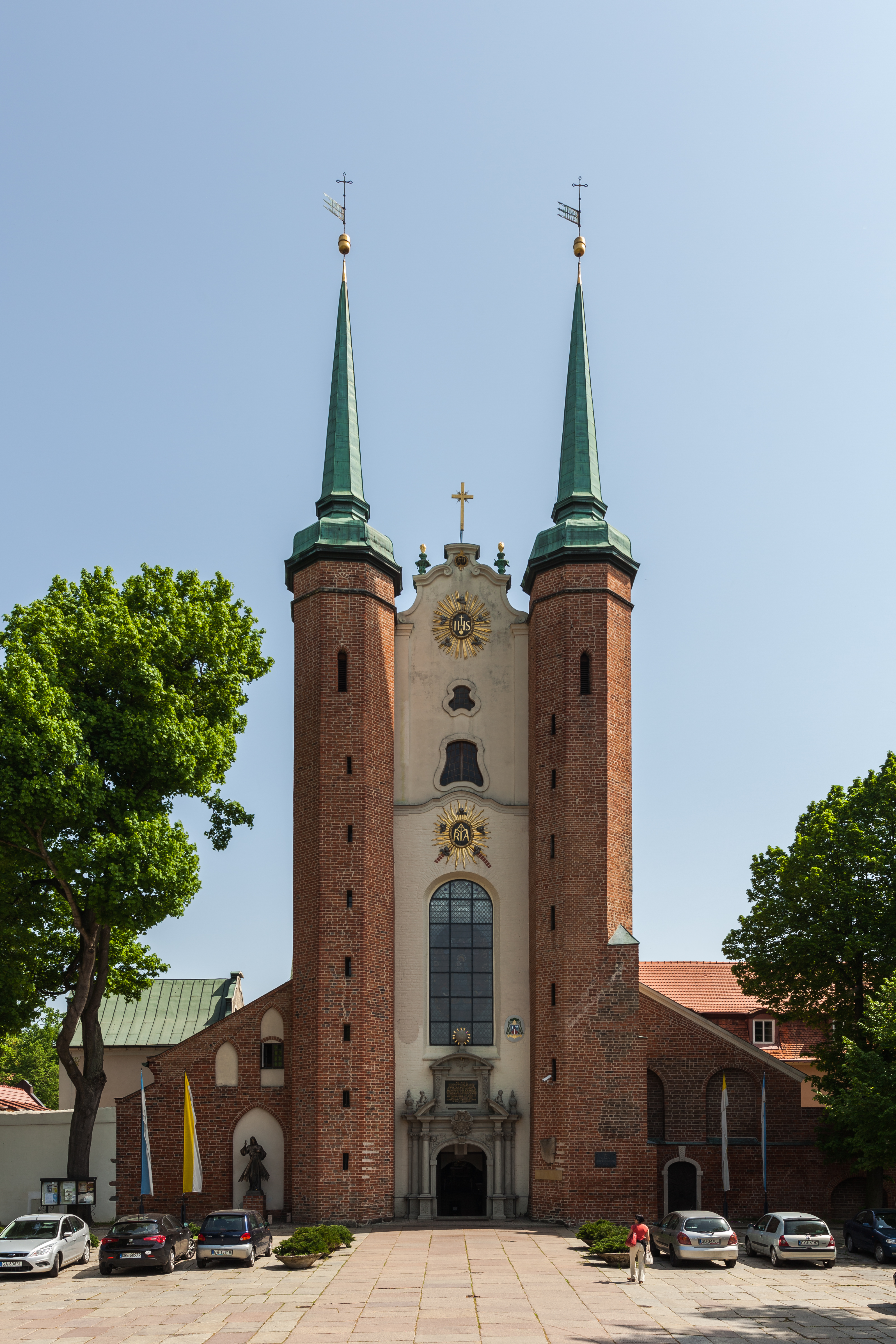 Oliwa Cathedral, Gdansk, Poland